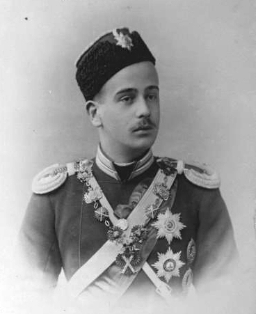 Grand Duke Boris Vladimirovich of Russia in his youth